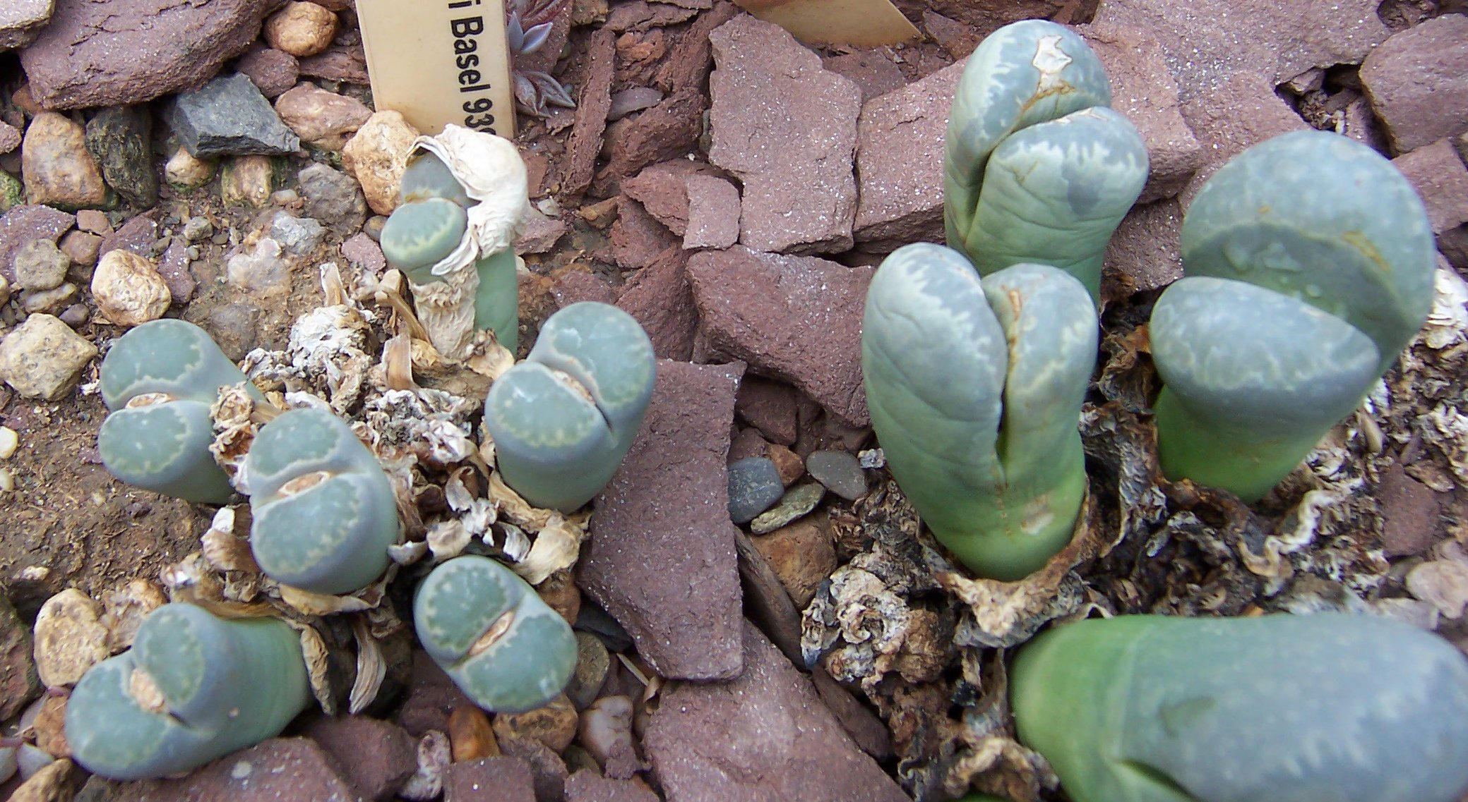 Lithops meyeri, Basel 939 strain